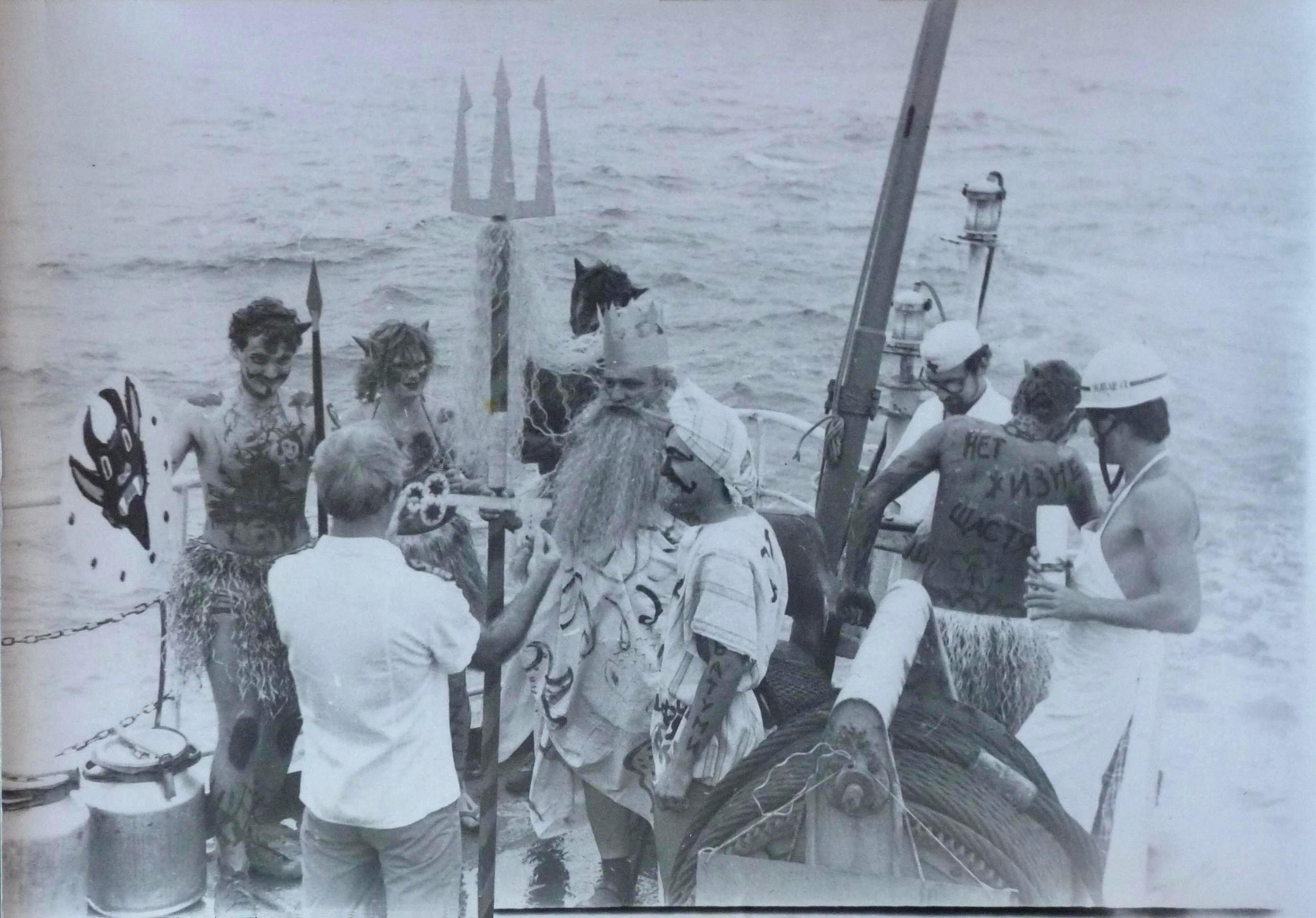 Equator crossing ceremony on the mv Toyvo Antikaynen. Commencement of ceremony. The master of the ship Gitchenko V.G. is reporting and presenting the "master's key" to the Neptune (3-rd officer Chobotko).